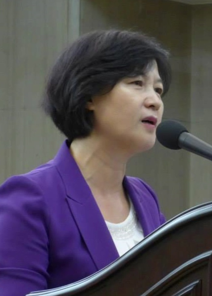 South Korean politician Choo Mi-ae at a panel event in 2015.